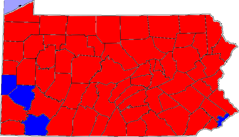 2004 Pennsylvania Senate results by county